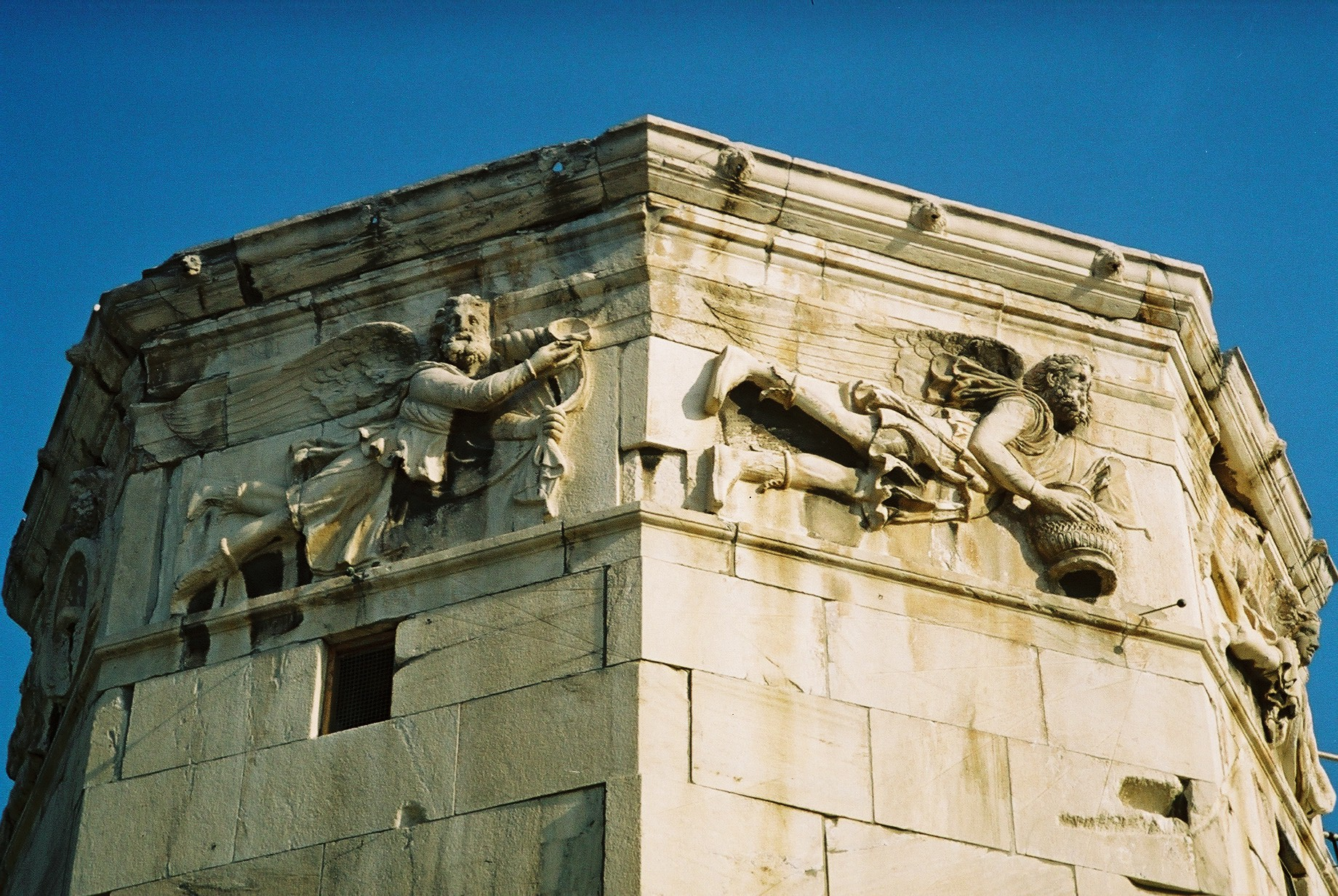 Detail of the frieze on the Tower of the Winds. Shown are the Greek wind gods Boreas (north wind, on the left) and Skiron (northwesterly wind, on the right).